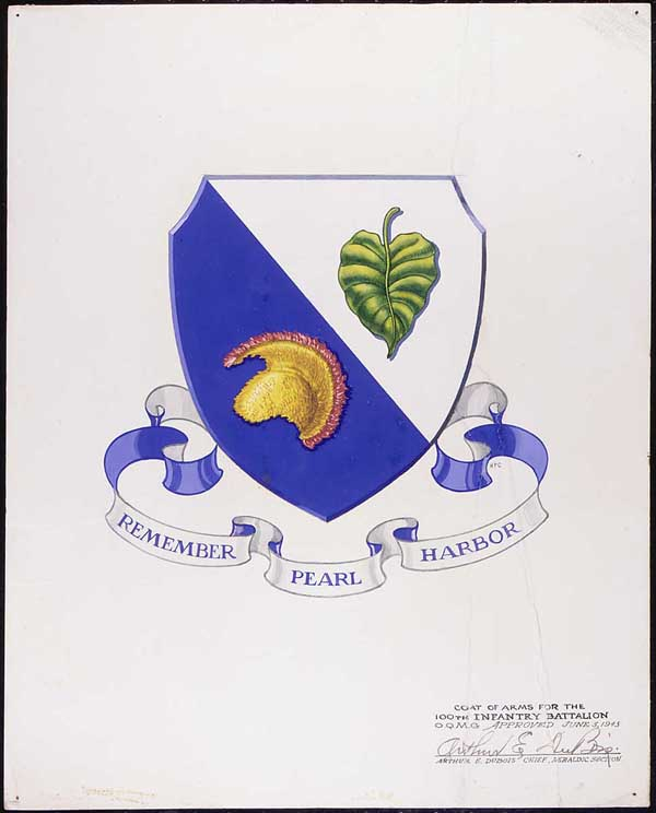 The coat of arms of the United States 100th Infantry Battalion